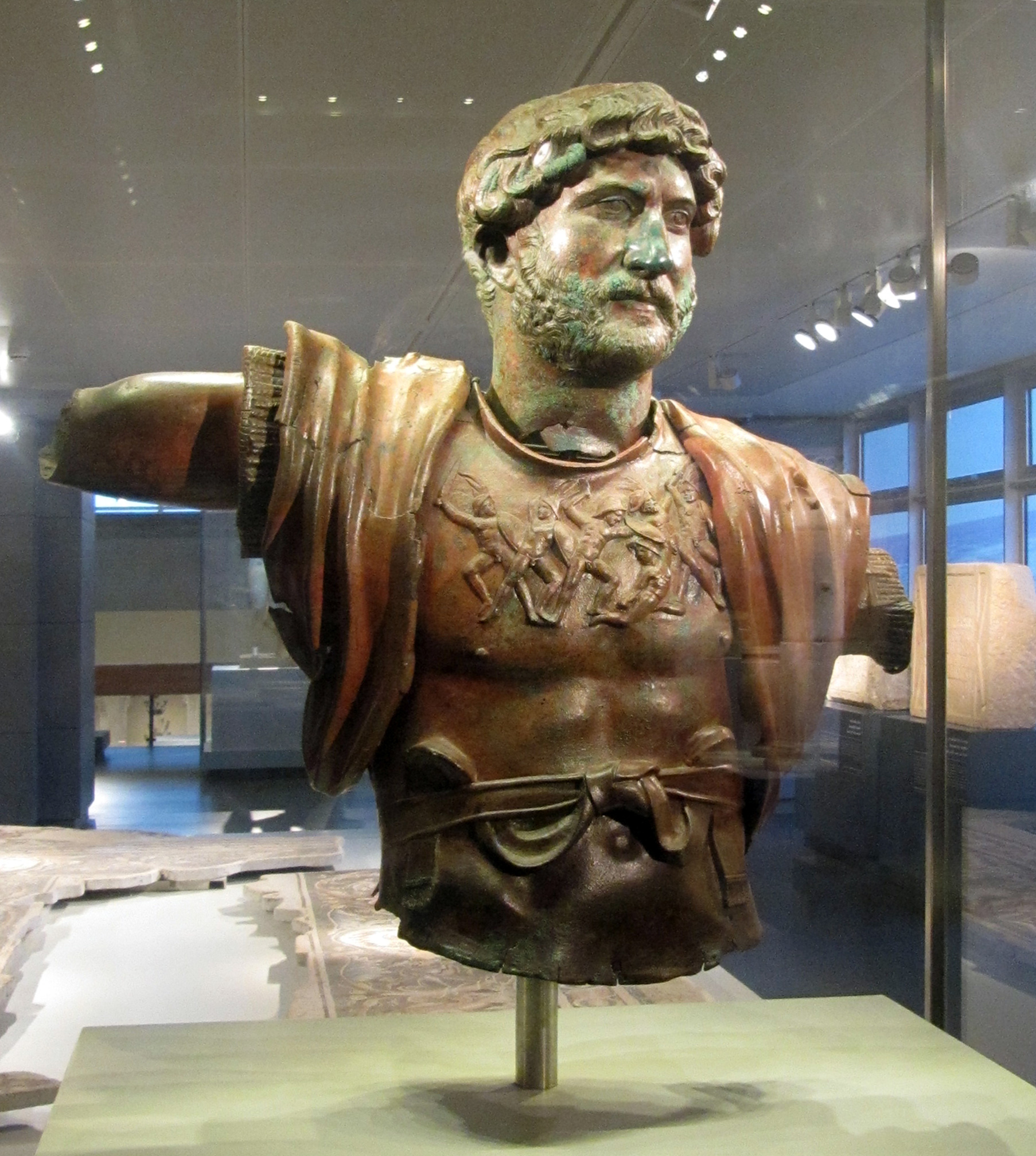 Hadrian sculpture in Israel Museum, This bronze statue was found by chance, some 12 km (7 miles) south of Beth Shean (Scythopolis) , at a site Tell Shalem, that was once a camp of the Sixth Roman Legion.